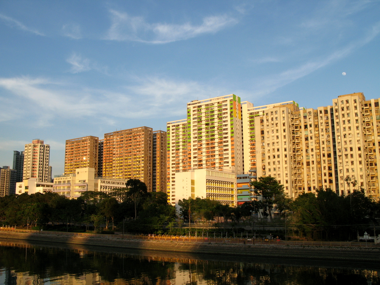 Shatin in the evening